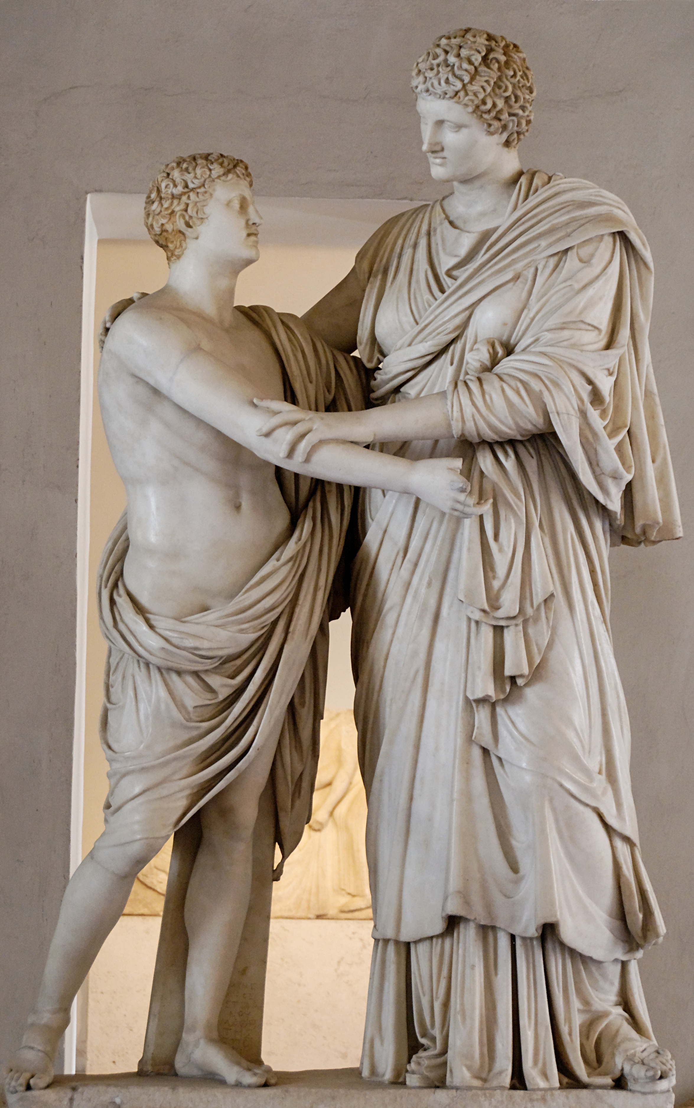 Orestes and Electra, also known as the "Ludovisi Group", with the sculptor's signature: "Menelaos, student of Stephanos, made it". Medium-grained marble, Greek artwork of the eclectic style; some restorations by Ippolito Buzi. From the Horti Sallustiani.